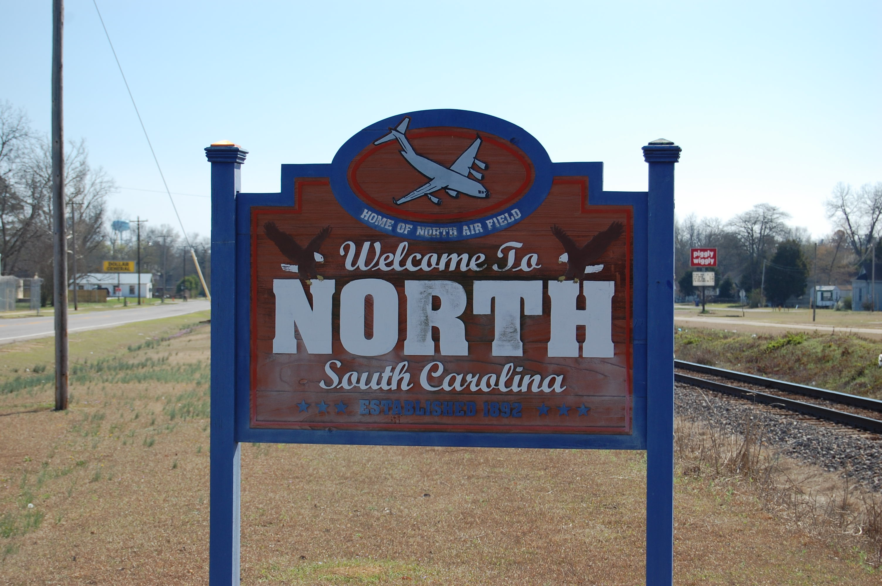 Sign welcoming visitors to North, South Carolina